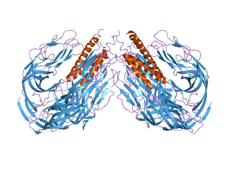 Cartoon representation of the molecular structure of protein registered with 1slq code.